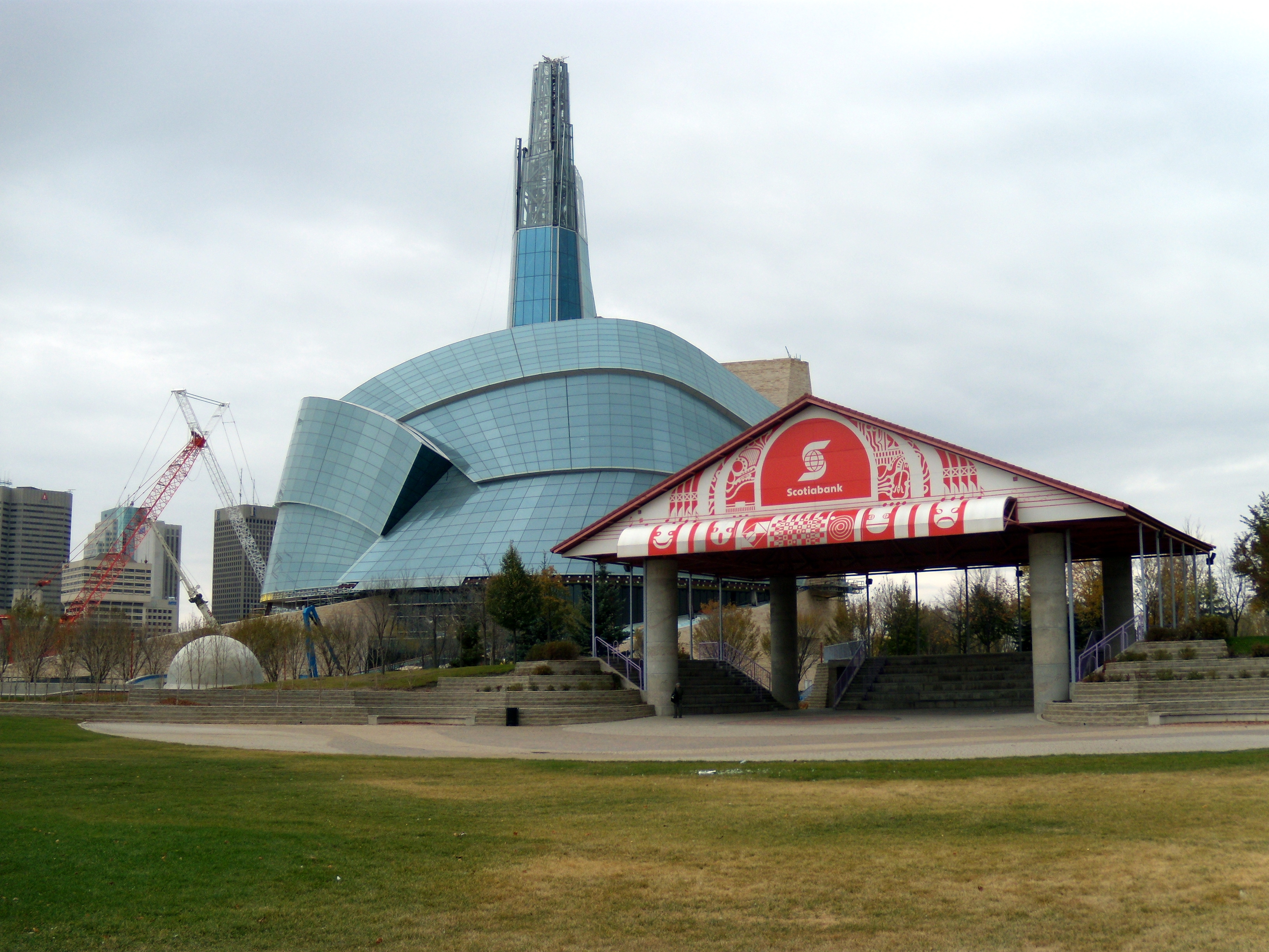 Scotiabank Stage and Canadian Museum for Human Rights